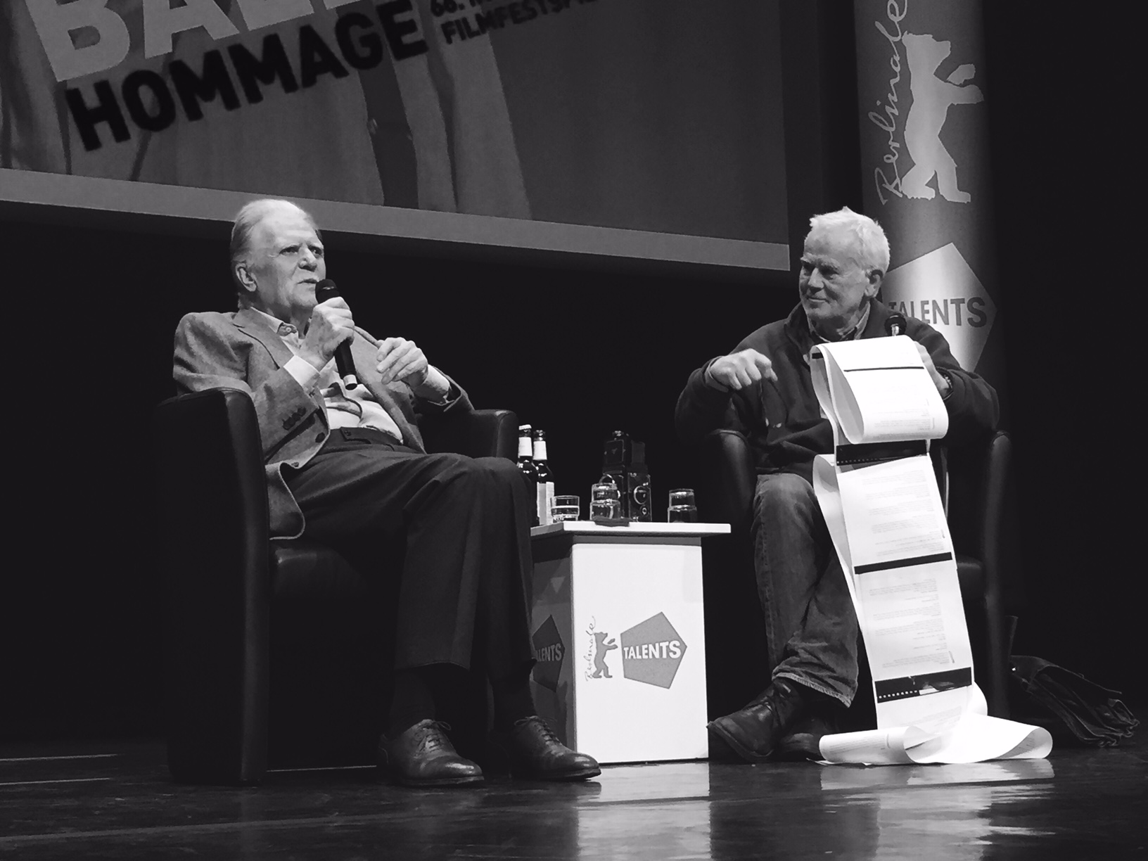 Michael Ballhaus meets Jim Rakete for Berlinale Hommage, February 2016